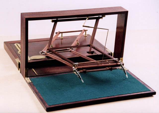 A modern reproduction of a polygraph machine similar to the type Thomas Jefferson used. Made by Wilman Spawn, c. 1974.